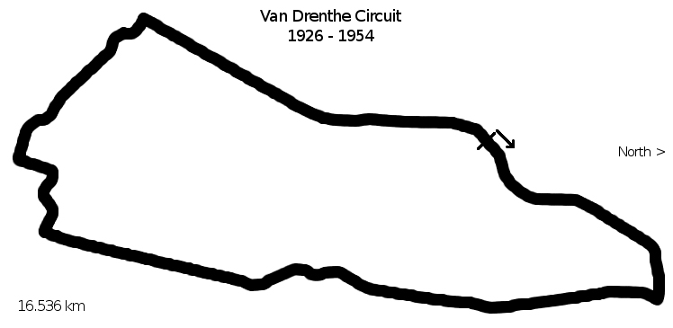 Assen van Drenthe circuit, in use from 1926 to 1954. Length: 10.275 mi